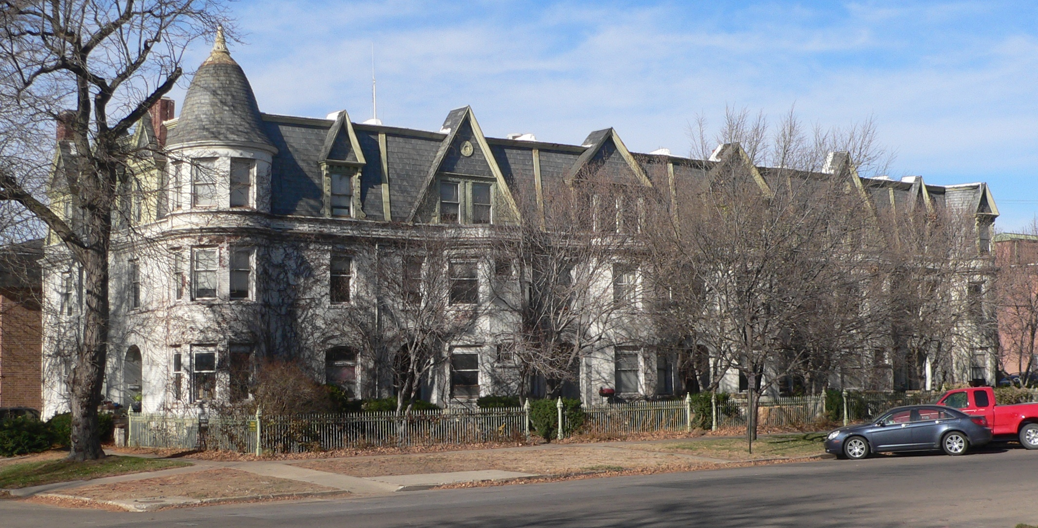 Barr Terrace, located at northwest corner of 11th and H Streets in Lincoln, Nebraska; seen from the southeast.